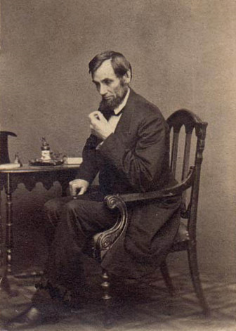 Photograph of Abraham Lincoln. Ostendorf# O-60; Meserve# M-64.